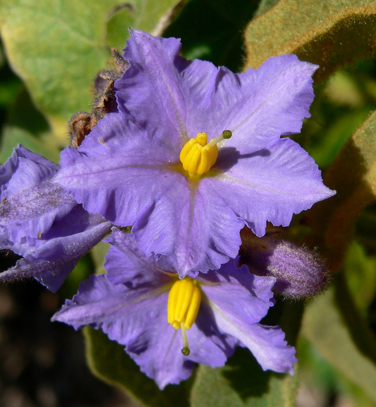 Solanum hispidum at the University of California Botanical Garden, Berkeley, California